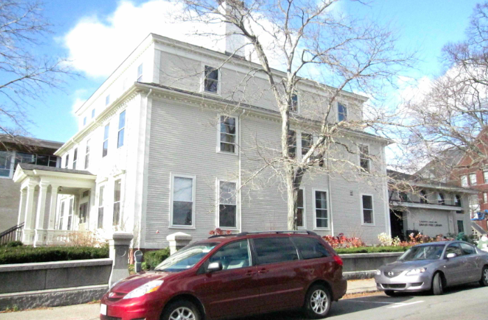 Public library, Gloucester, Massachusetts, USA